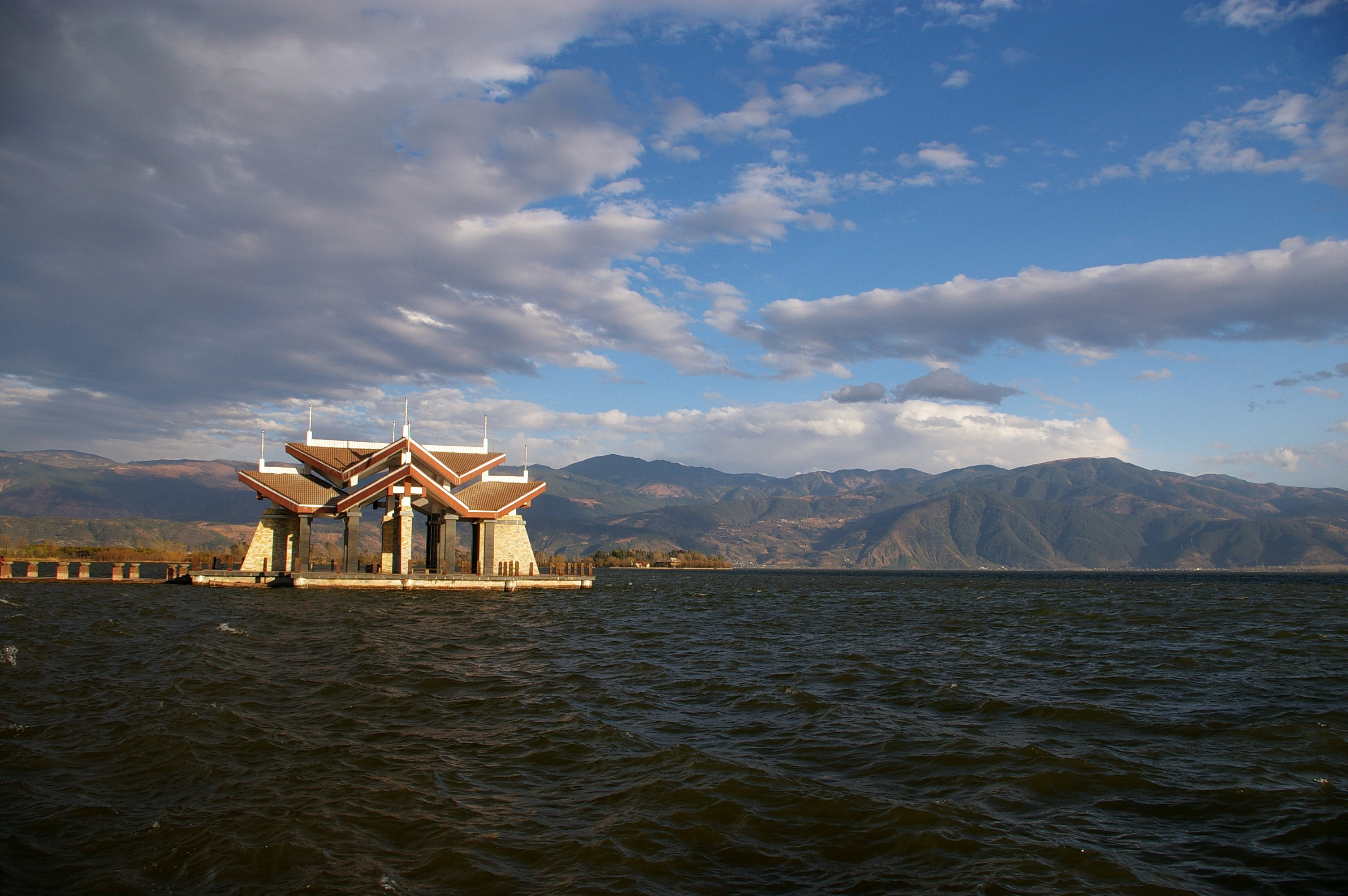 西昌邛海风光Xichang Qionghai Lake scenery